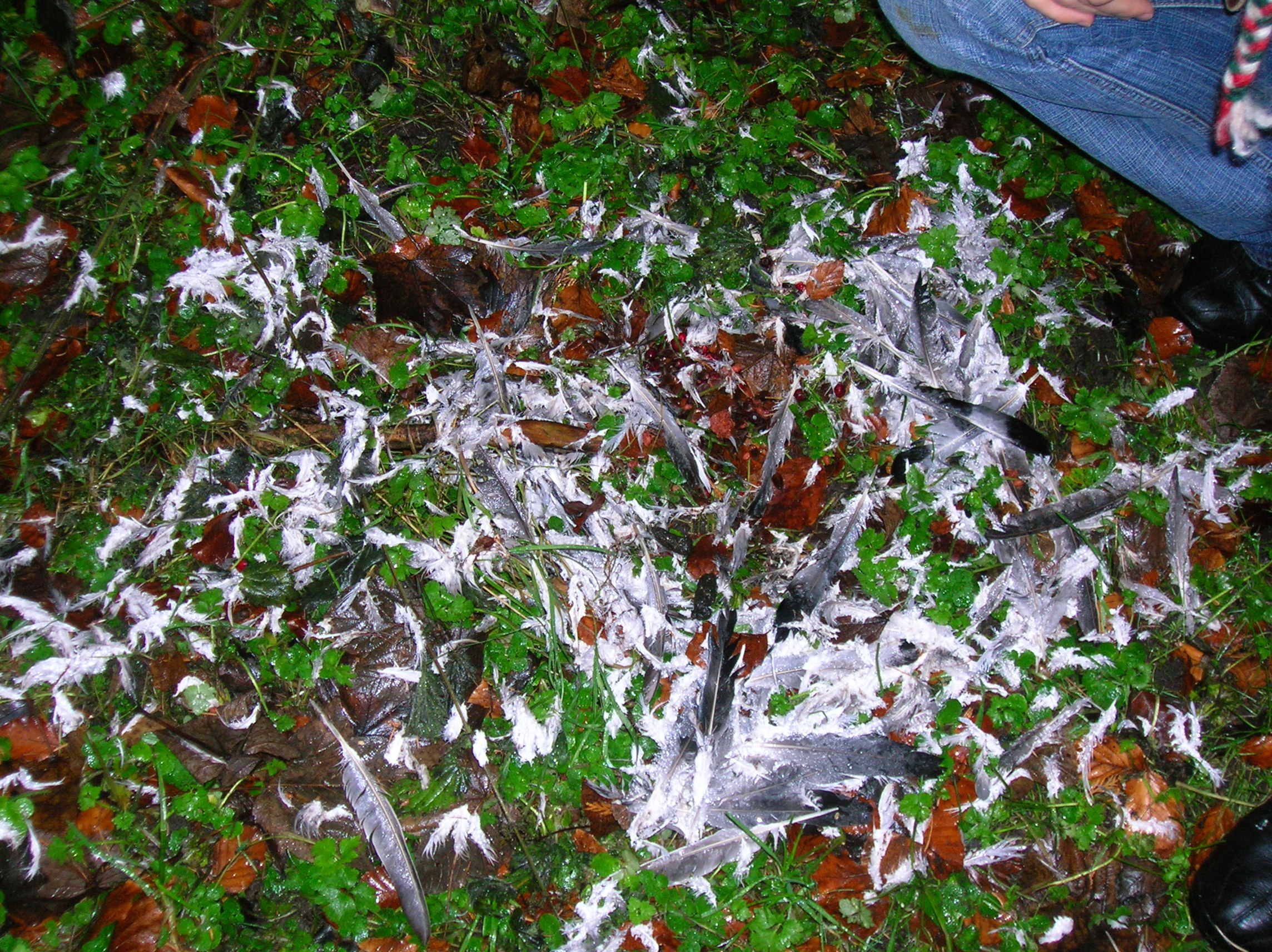 Plucking post kill of a Wood Pigeon, Peregrine or Sparrowhawk as predator, Monkcastle, North Ayrshire, Scotland.